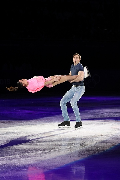 Gala exhibition at the 2018 Winter Olympics